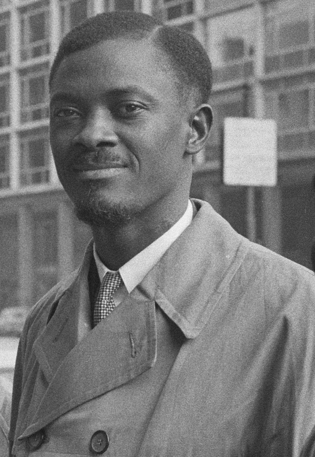 Patrice Lumumba, during the round table conference in Brussels in January 1960